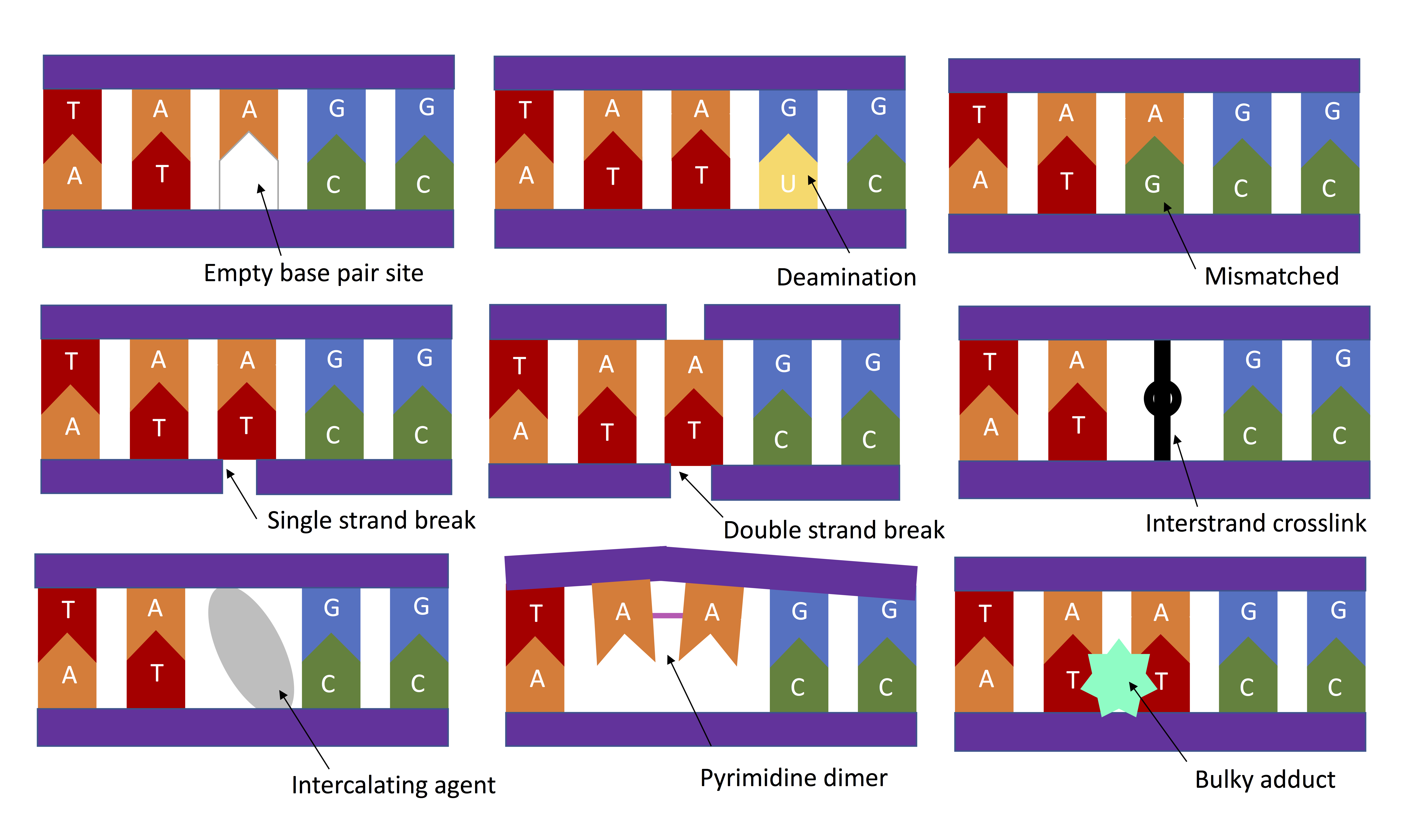 different types of damage to DNA